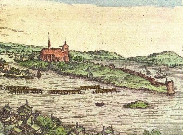 Stockholmsvyerna i Civitates orbis terrarum